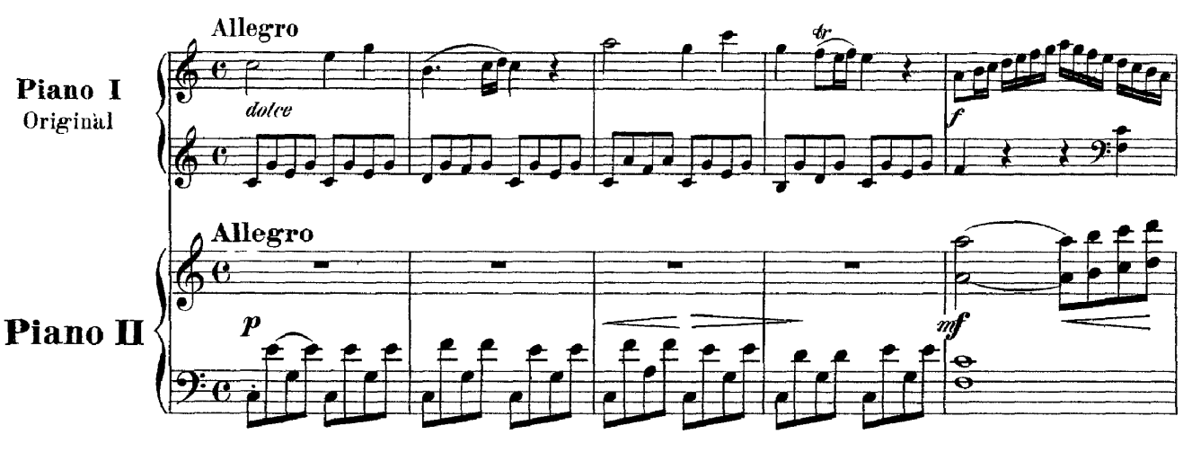 First line of the music score of Grieg's arrangement of Mozart's K545 sonata in C major.